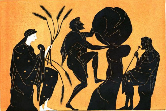 Sisyphus